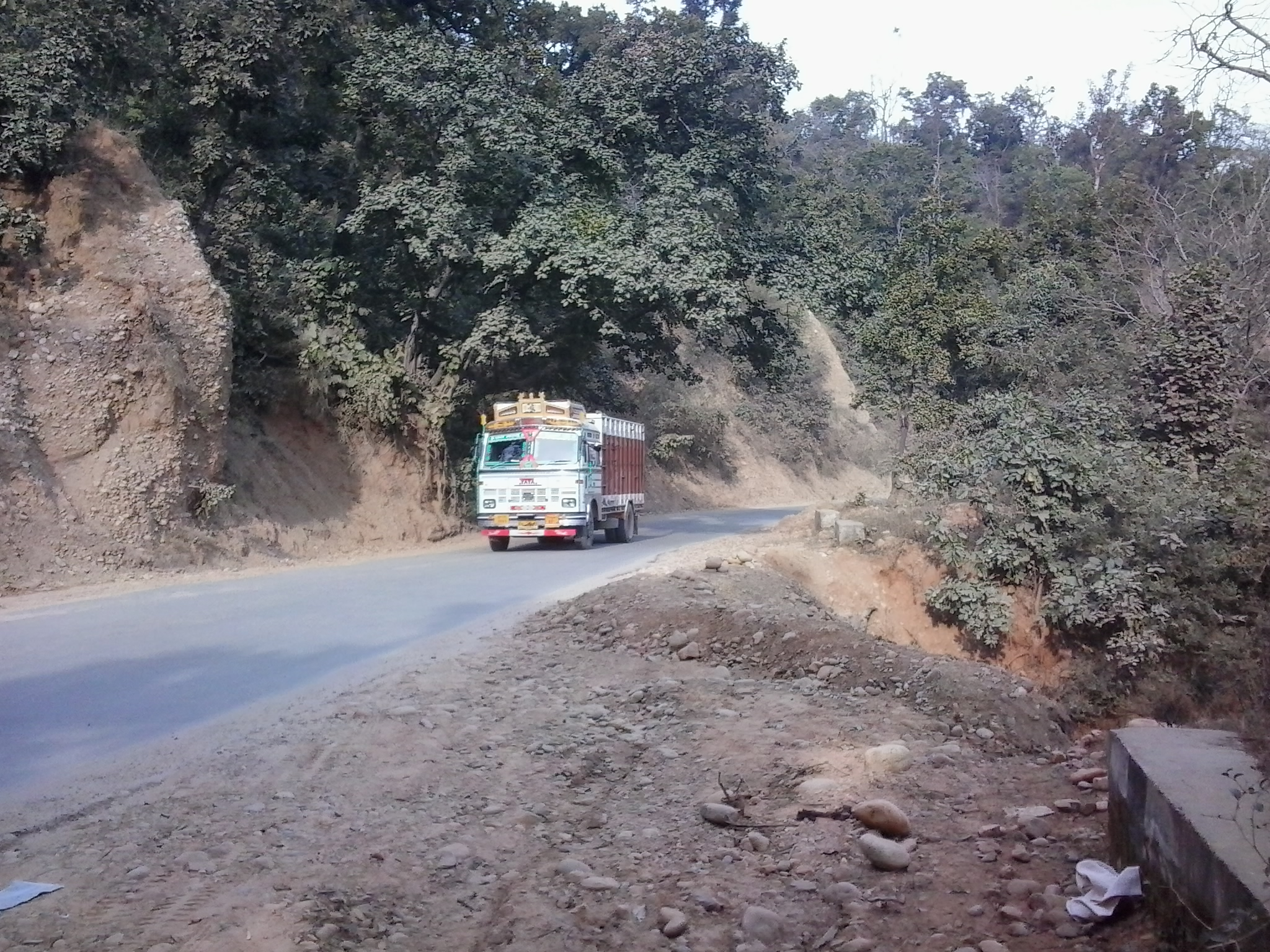 National Highway no 907, Yamunanagar to Paonta Sahib